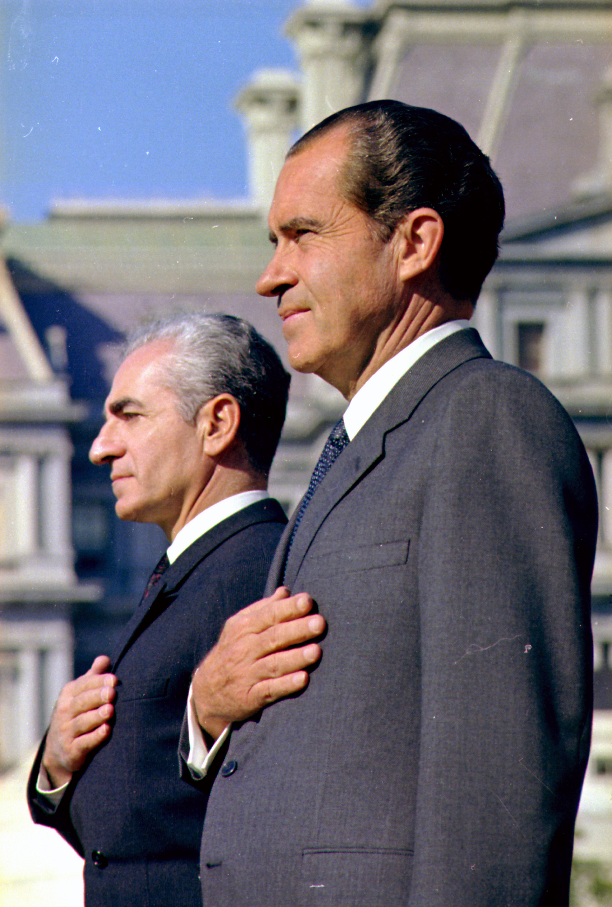 The Shah of Iran and President Nixon